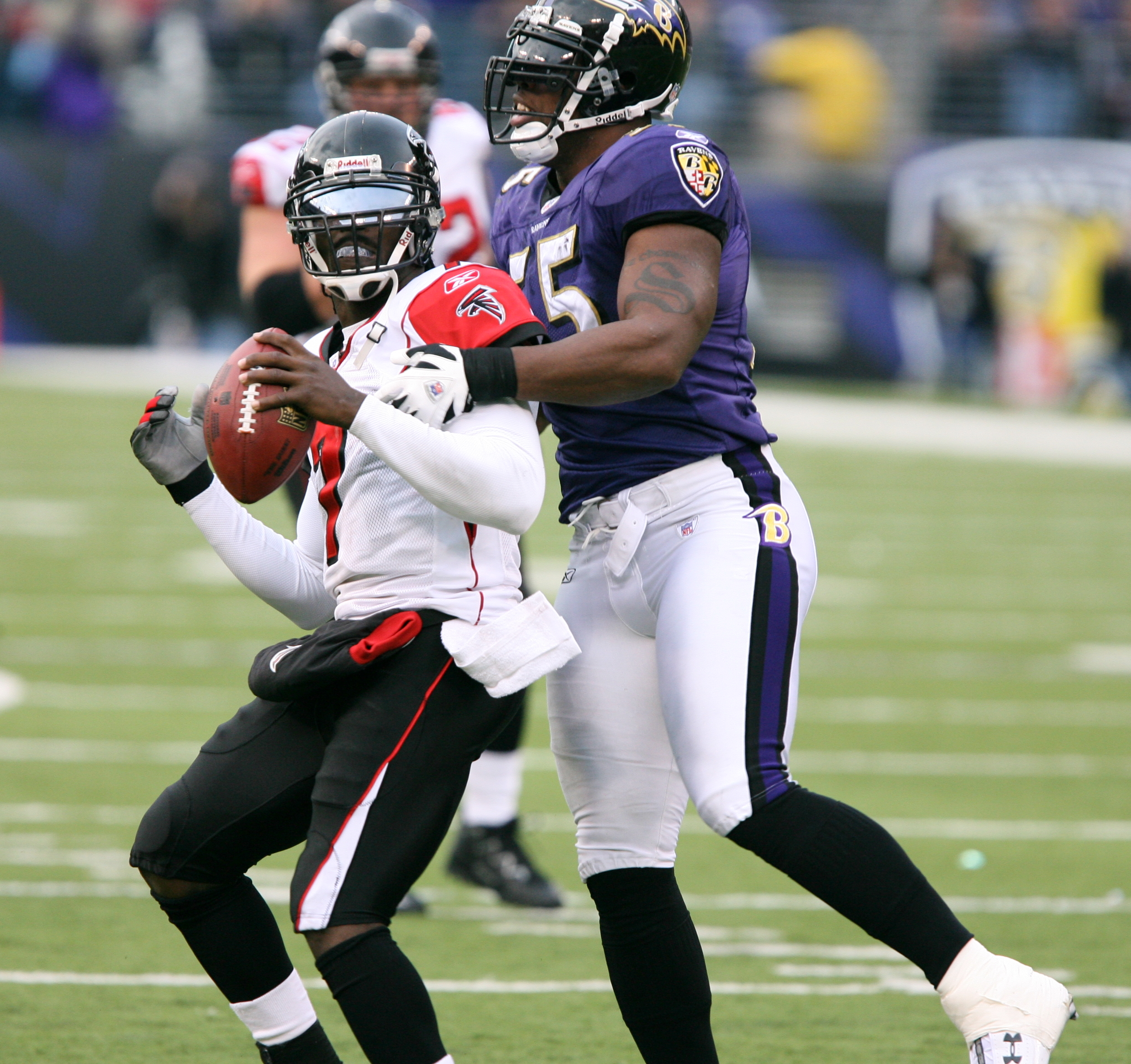 Michael Vick during a game against the Baltimore Ravens, November 19, 2006. Terrell Suggs is next to him.